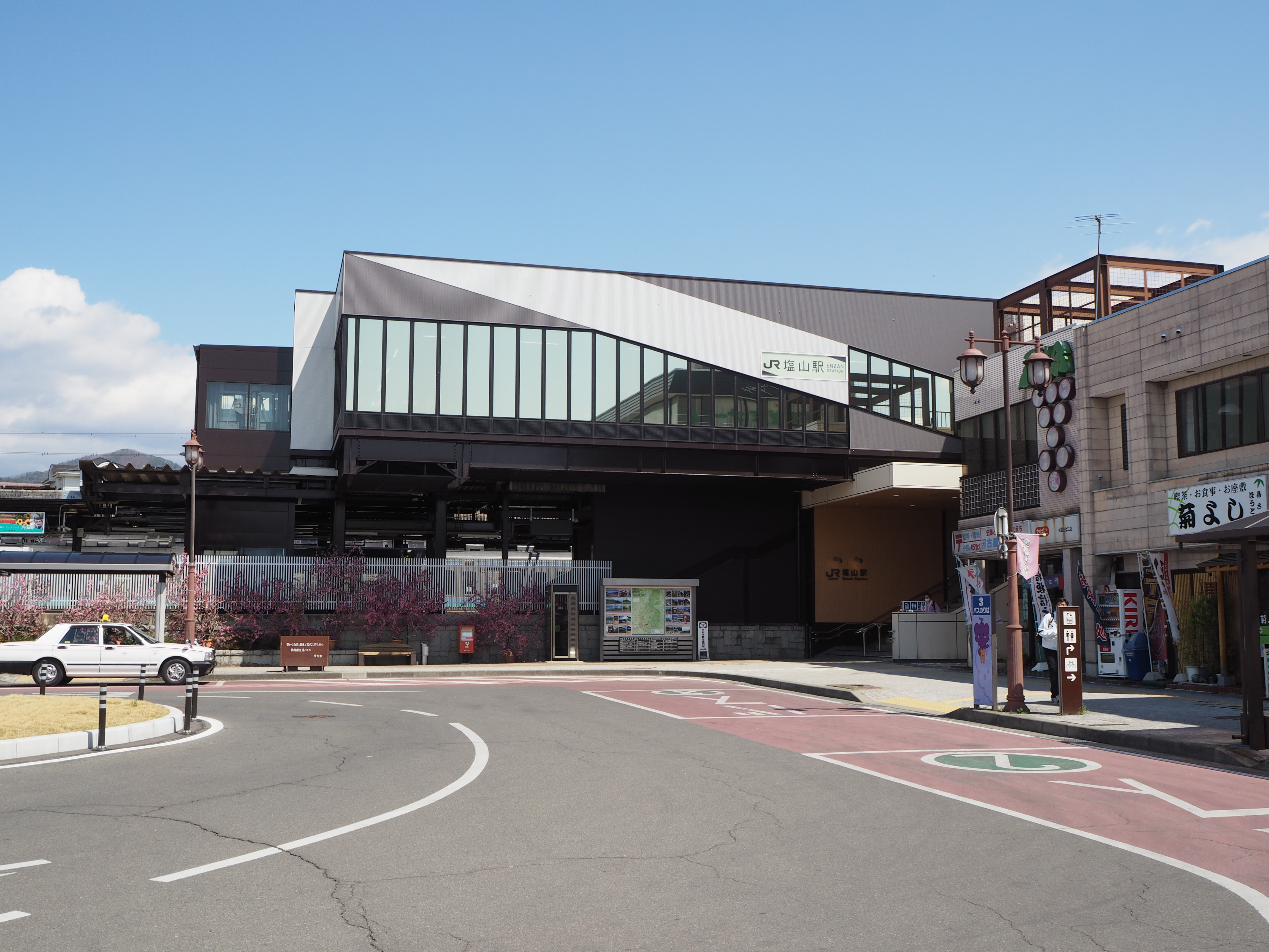 South entrance of Enzan Station